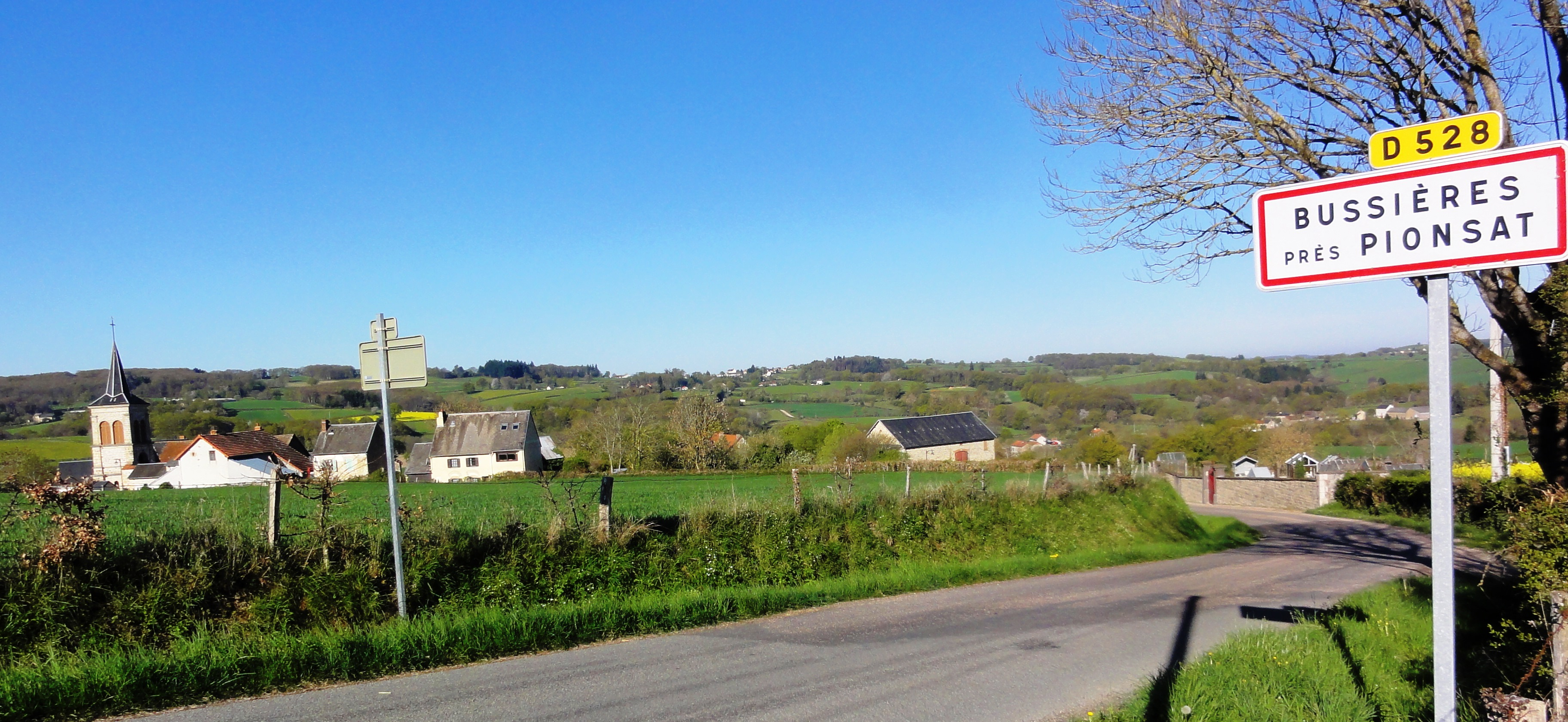 Bussières-près-Pionsat (Puy-de-Dôme) panneau d'entrée, panorama